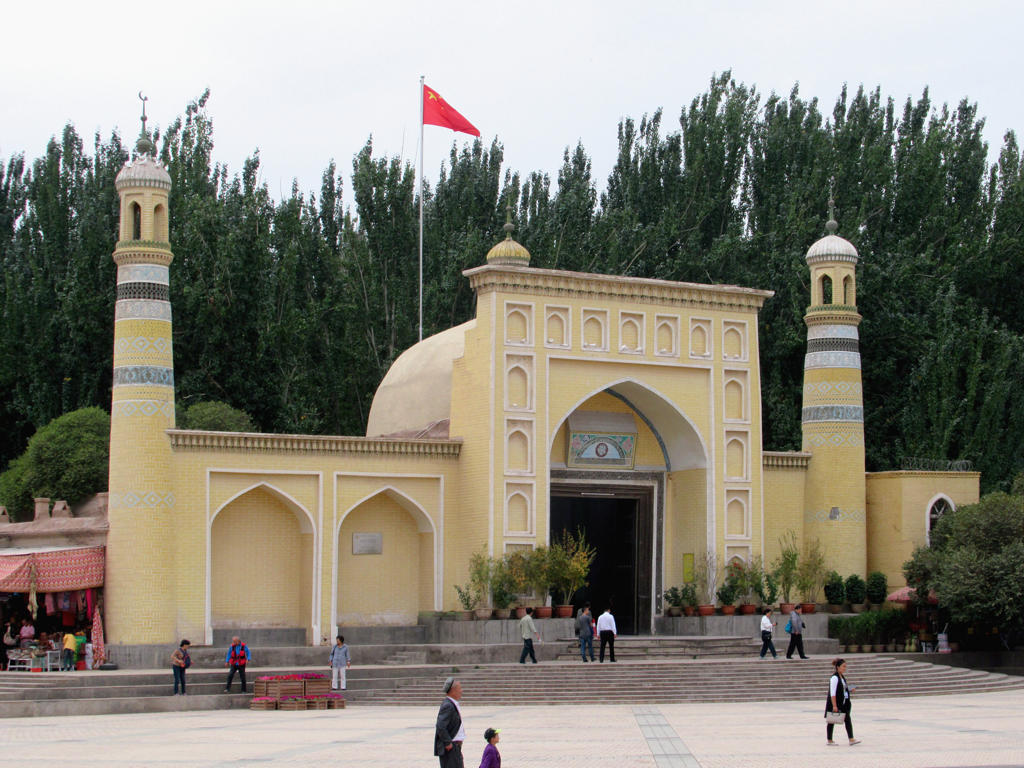 The Id Kah Mosque (1442) in Kashgar, Xinjiang, is the largest mosque in China. Tourists may visit daily but Muslim worshippers are only allowed in for Friday prayers and their ID cards are recorded.